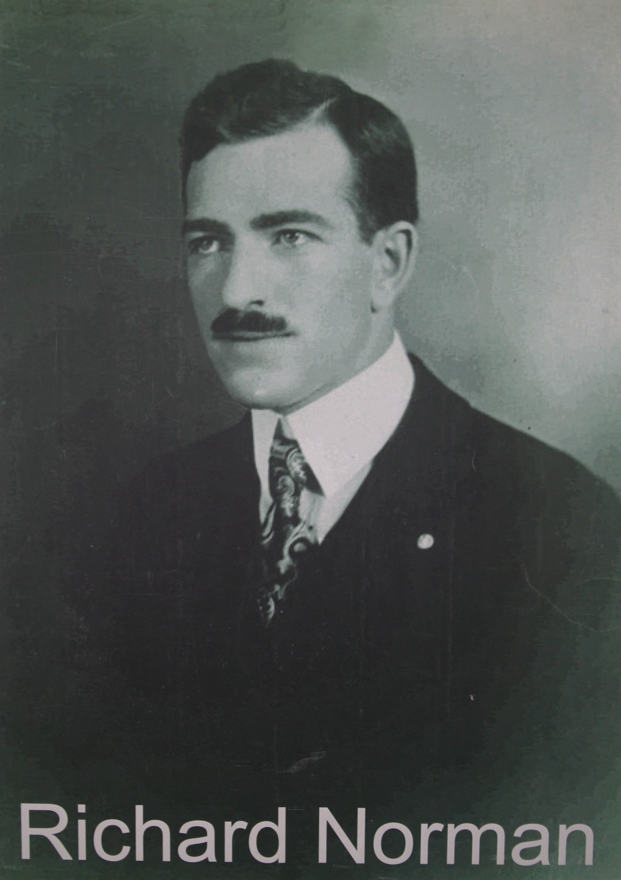 Property of Norman Studios